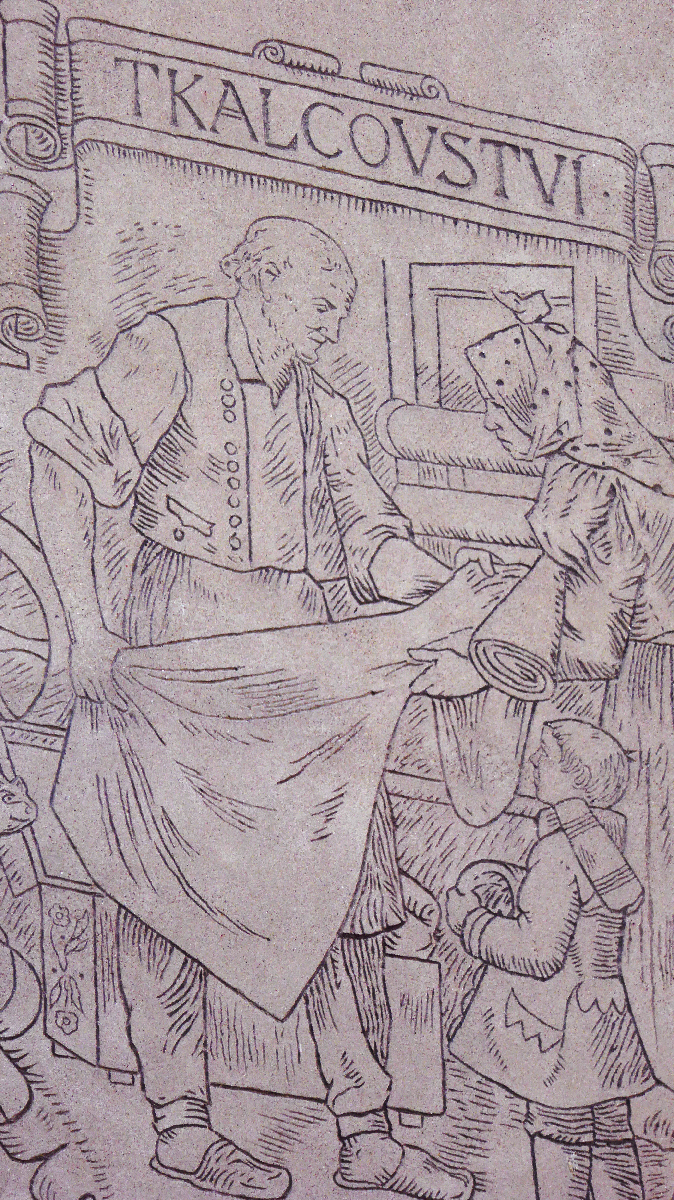 Weaving is the name of a part of the scene from the history of the city on a house built in 1904 in "Hlinsko". The house stands in to U tvrze street, on the corner of "Poděbradovo" Square. The author of the project was architect Ladislav Skrivanek, sgraffito on the facade was the work of academic painter Ladislav Novák. On the house are scenes from Czech history and town Hlinsko history. The house was built for doctor of medicine "Čeněk Ježdík (1860-1930)", in town "Hlinsko" since 1898, in 1903-1919 the mayor of the town, hence the name "Ježdíkův" house. Photo-location: Czech Republic, Pardubice Region, town Hlinsko. Photo-location: Czechia, Pardubice Region, Hlinsko, "Poděbradovo" square, "Kameničská" Highlands".